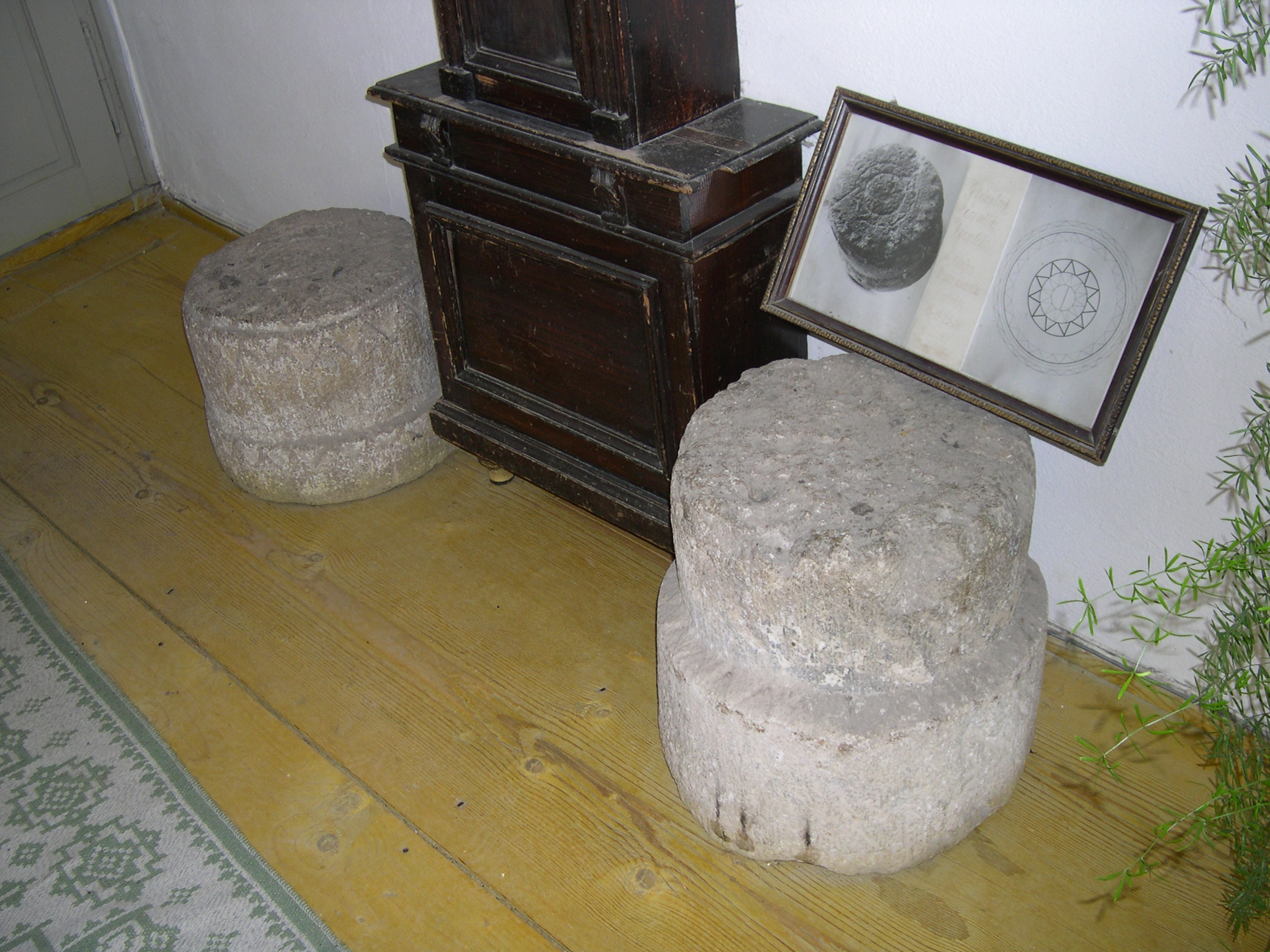 Sun or calendar stone in Csíksomlyó. Separated into two pieces. Relics of ancient sun worshipping culture from Bronze Age